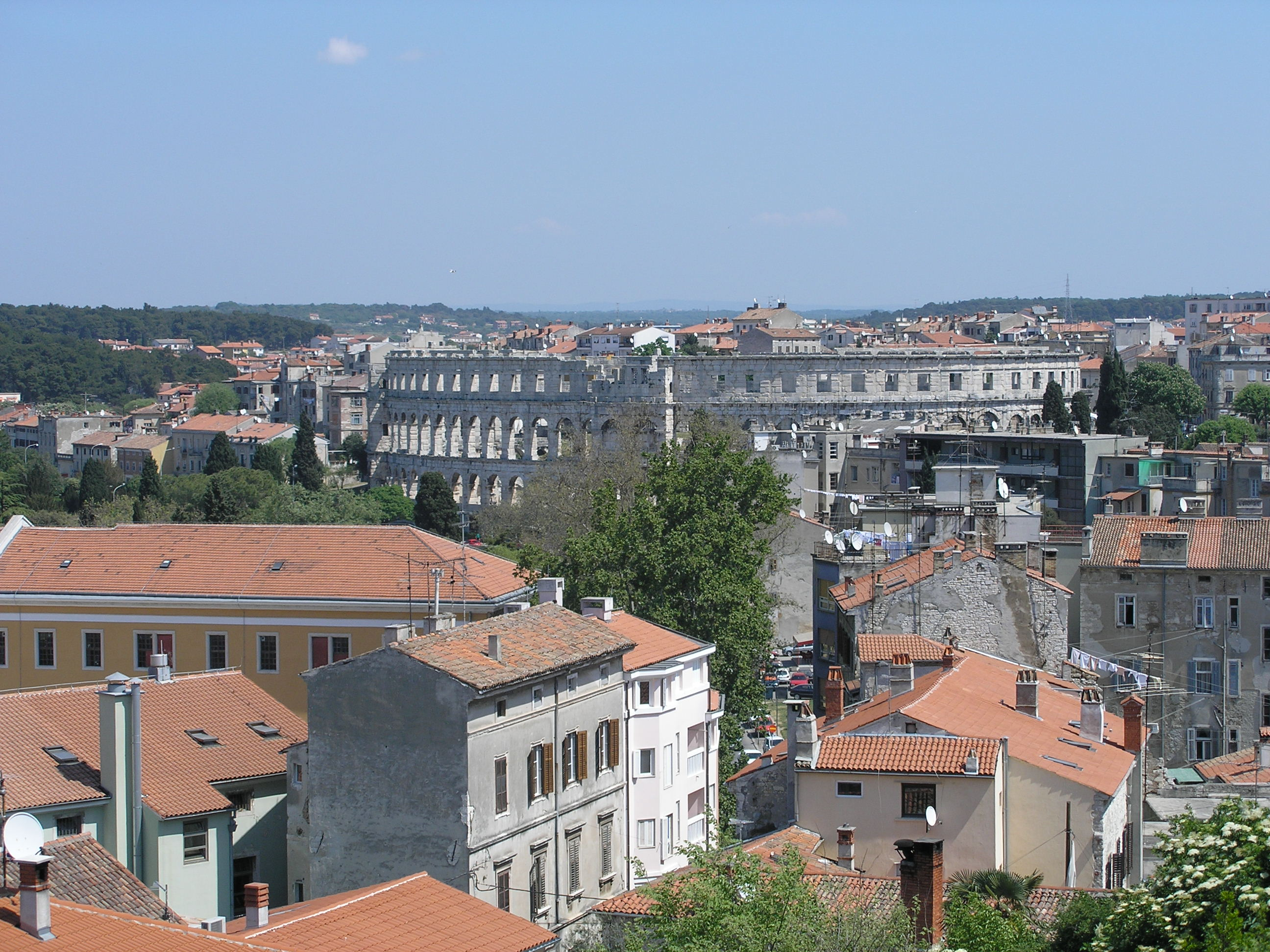 Panorama of Pula, Croatia